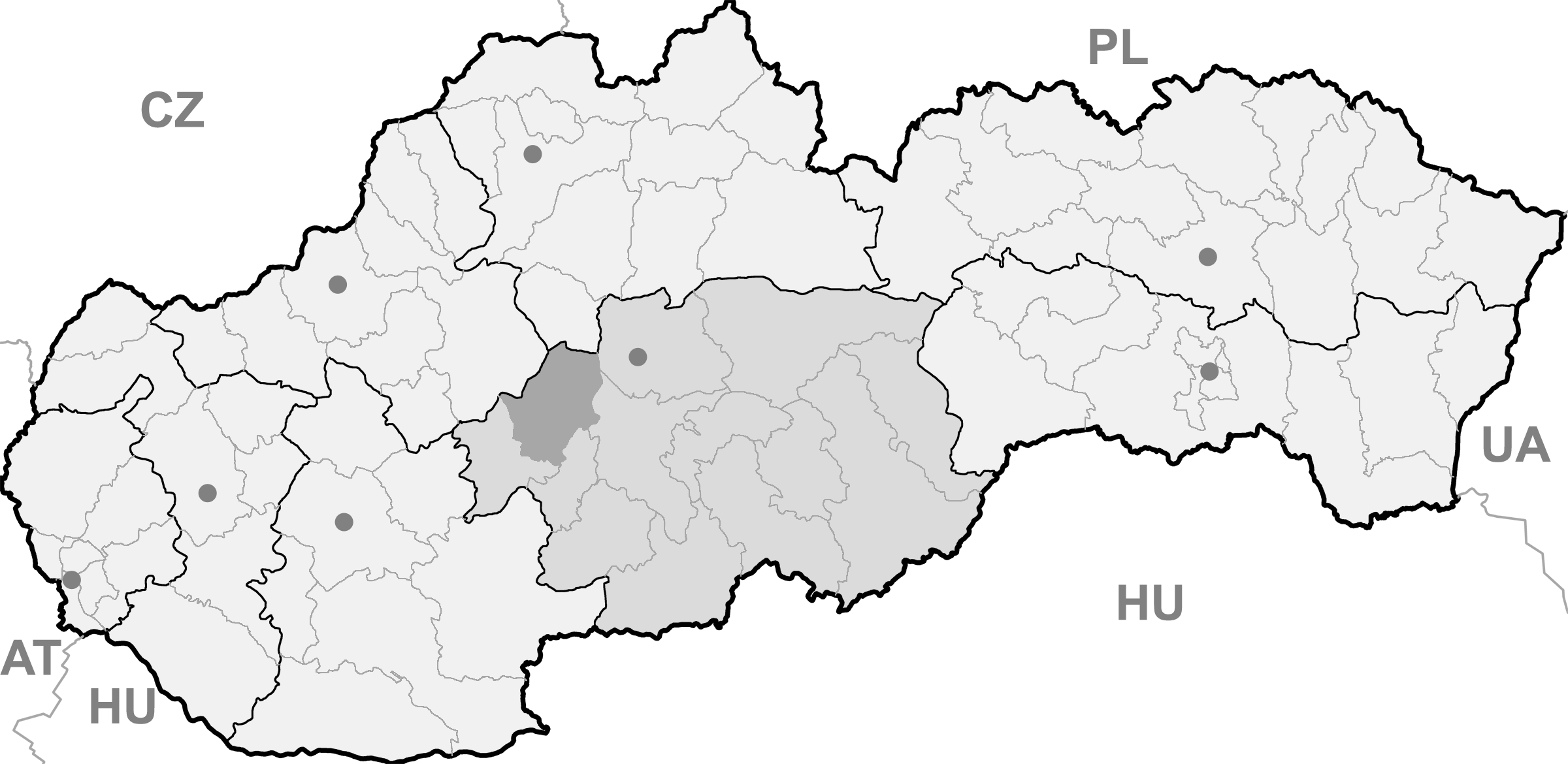 Map of Slovakia, Ziar nad Hronom district and Banská Bystrica region highlighted